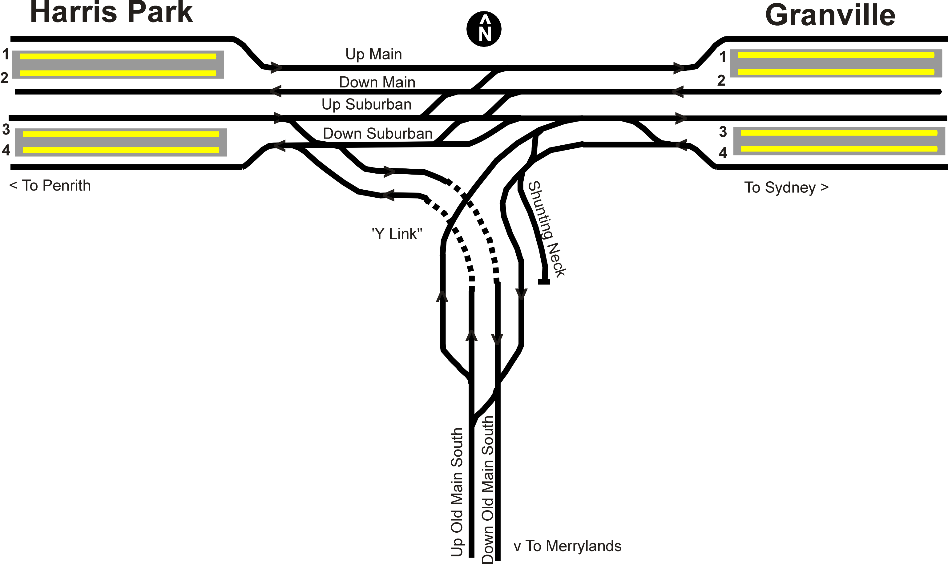 Track arrangement at the 'Y Link' on Cumberland railway line between Merrylands, Harris Park and Granville railway stations, Sydney